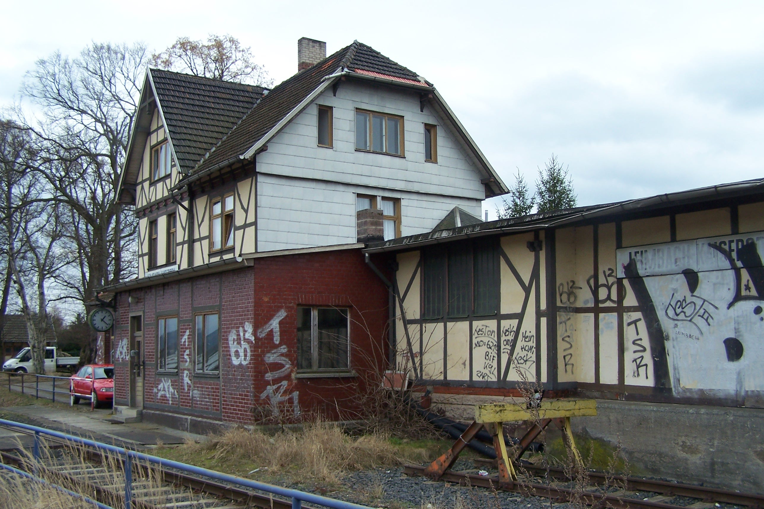 The train station in Leimbach-Kaiseroda.